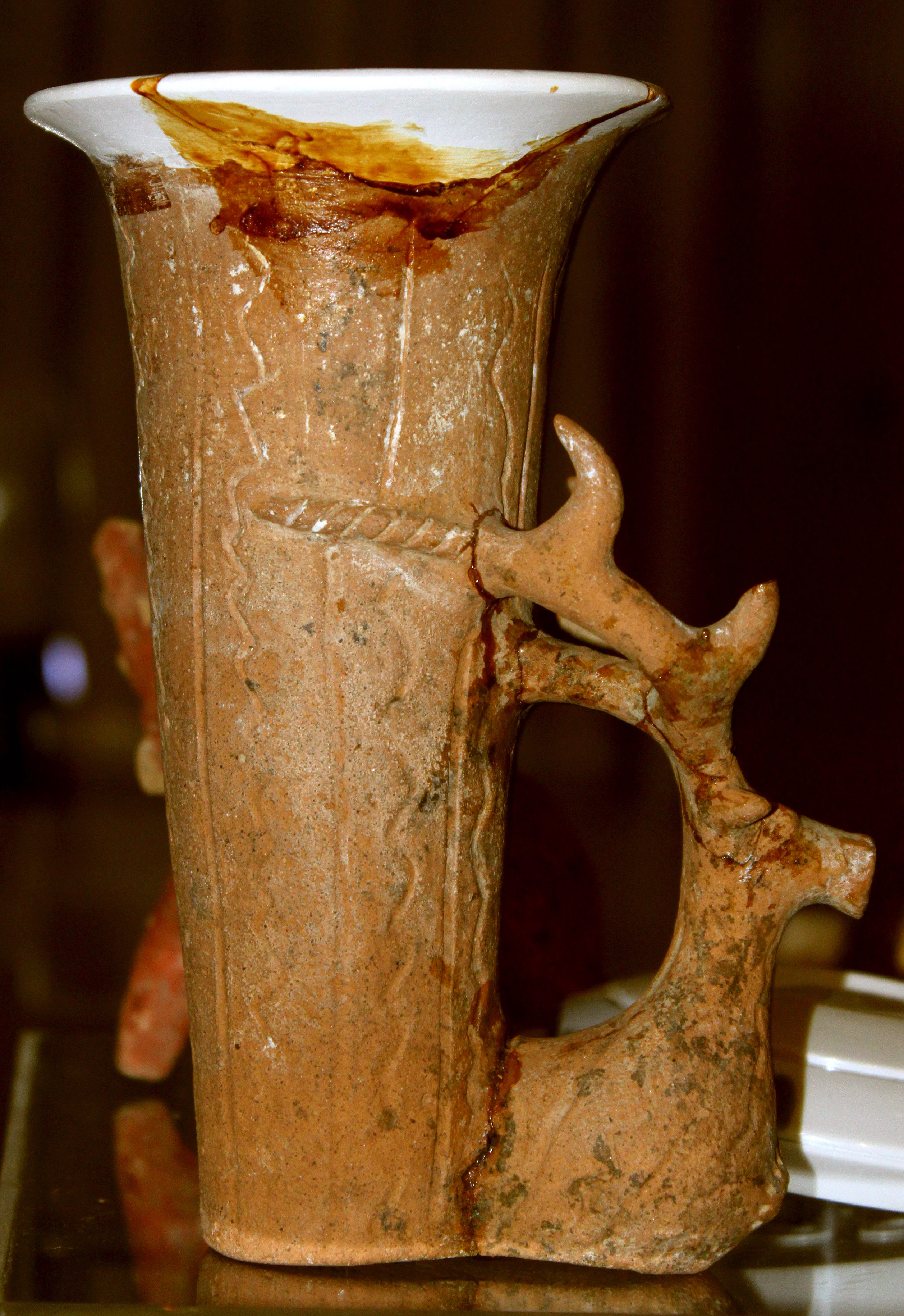 Caucasian Albanian zoomorph ceramic riton from Mingachevir